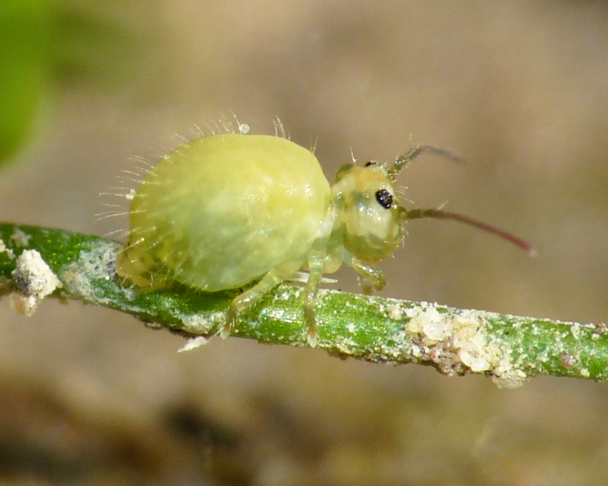 Sminthurus viridis, near Livorno, Tuscany, Italy